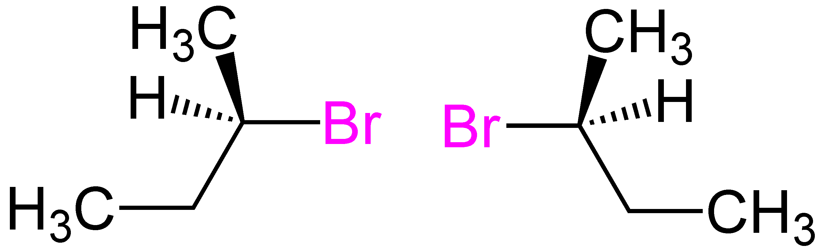 Bromobutane_Enantiomers_Structural_Formula